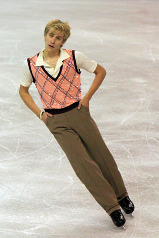 Michal Březina at the 2009 Skate Canada International.